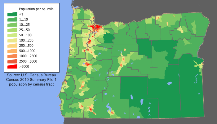 Oregon state population density map based on Census 2010 data. See the data lineage for a process description.